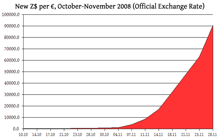 Official exchange rate of Zimbabwe Dollar for 1 Euro, October - November 2008